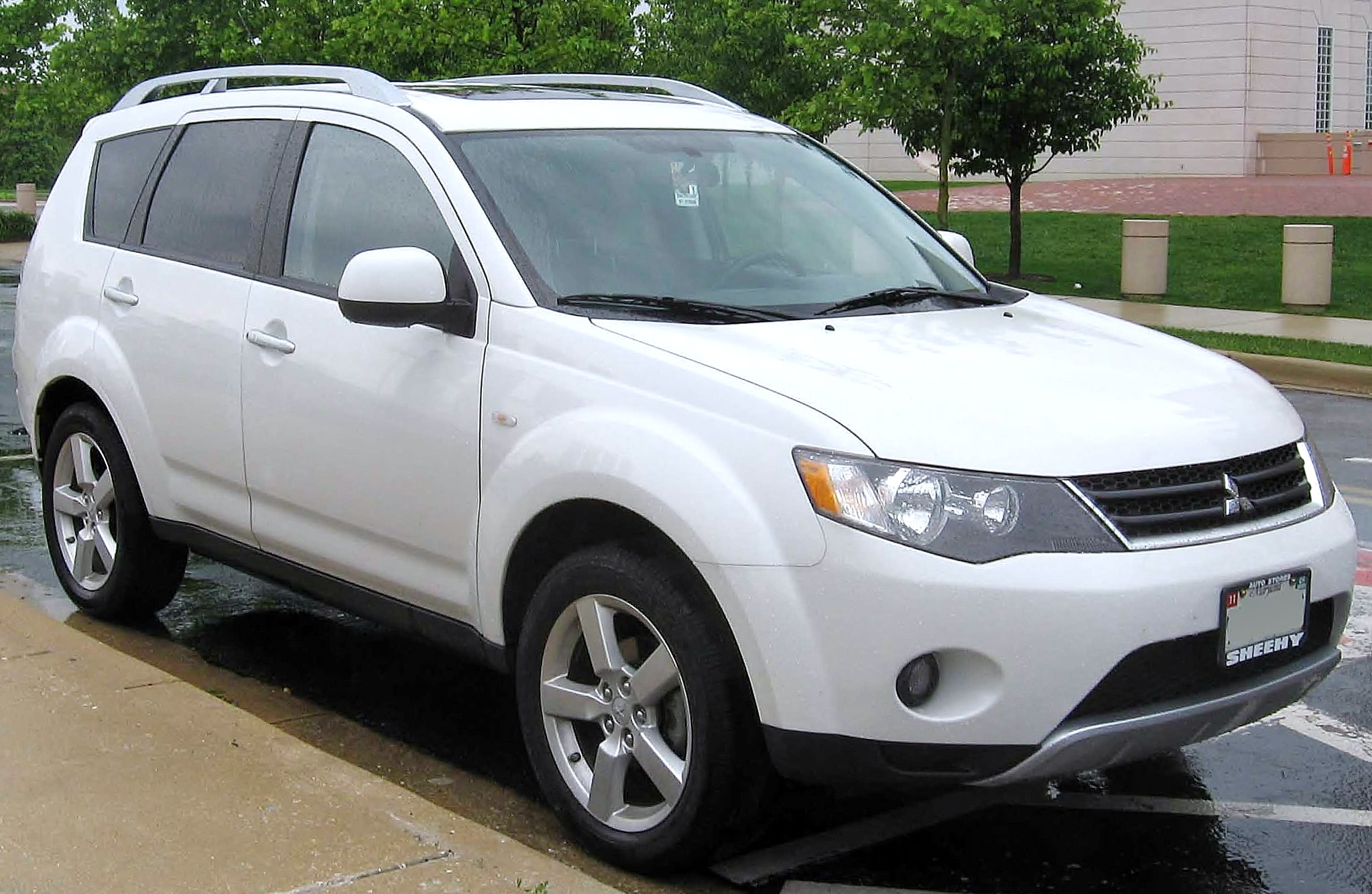 2007-2008 Mitsubishi Outlander photographed in College Park, Maryland, USA.